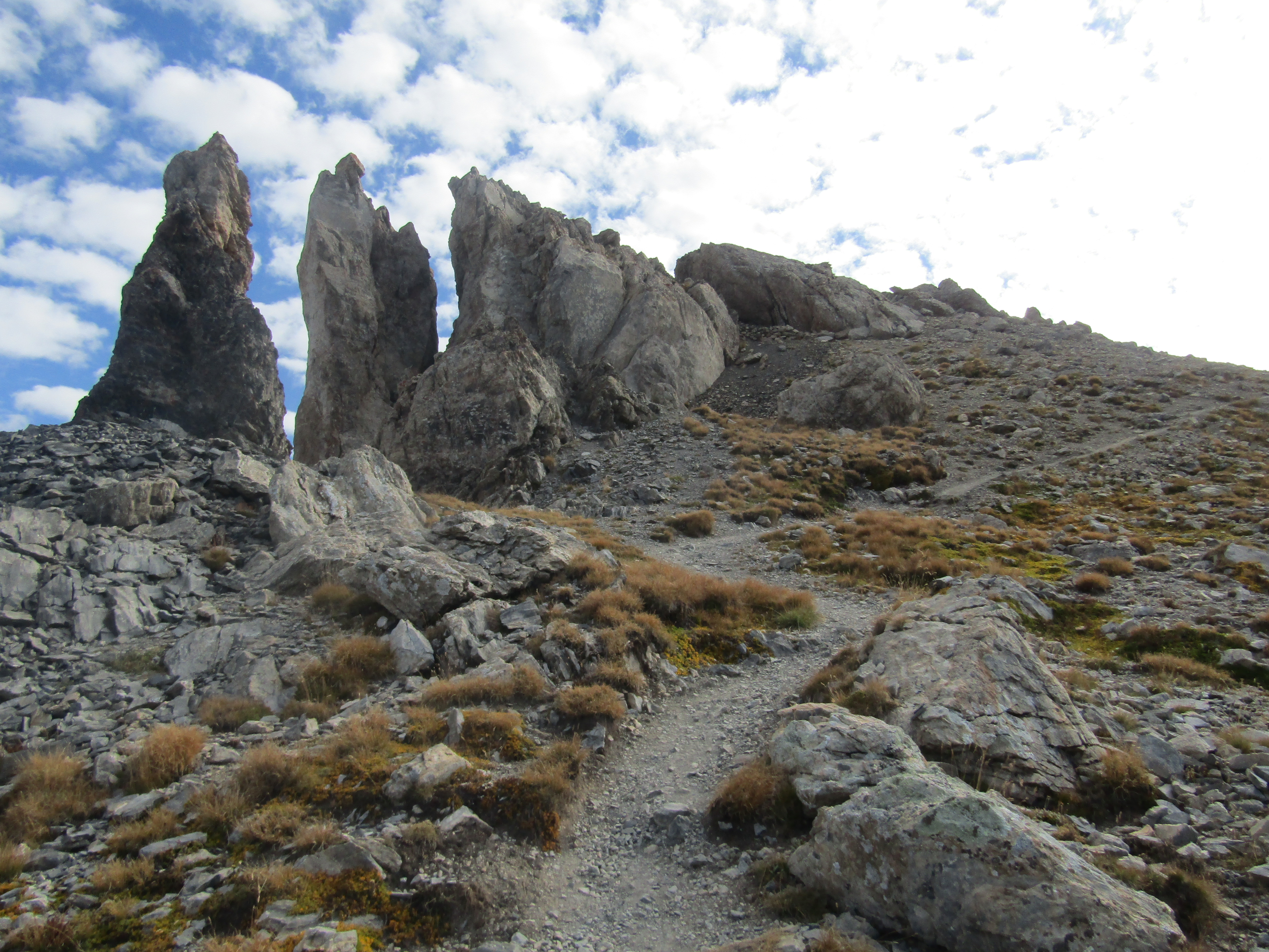 Grand Aréa (France, Cottian Alps): the foothpath leading to the summit following the Western ridge